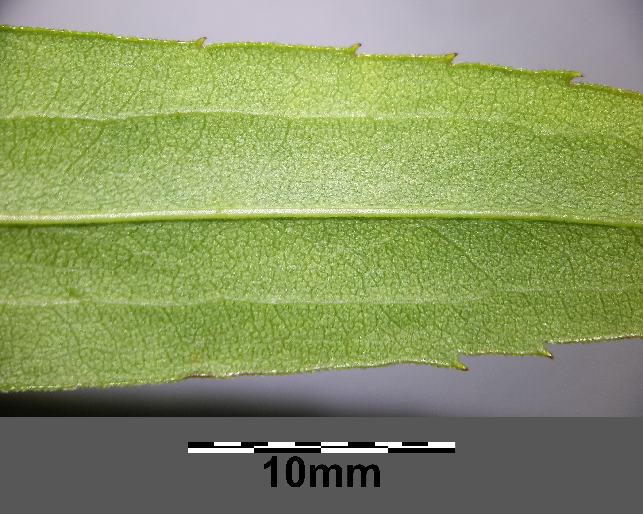 Bottom side of leaf, without prominent lateral veins Taxonym: Solidago gigantea (subsp. serotina) ss Fischer et al. EfÖLS 2008 ISBN 978-3-85474-187-9 Location: Veitsberg/Bisamberg, district Korneuburg, Lower Austria - ca. 320 m a.s.l. Habitat: fallow land